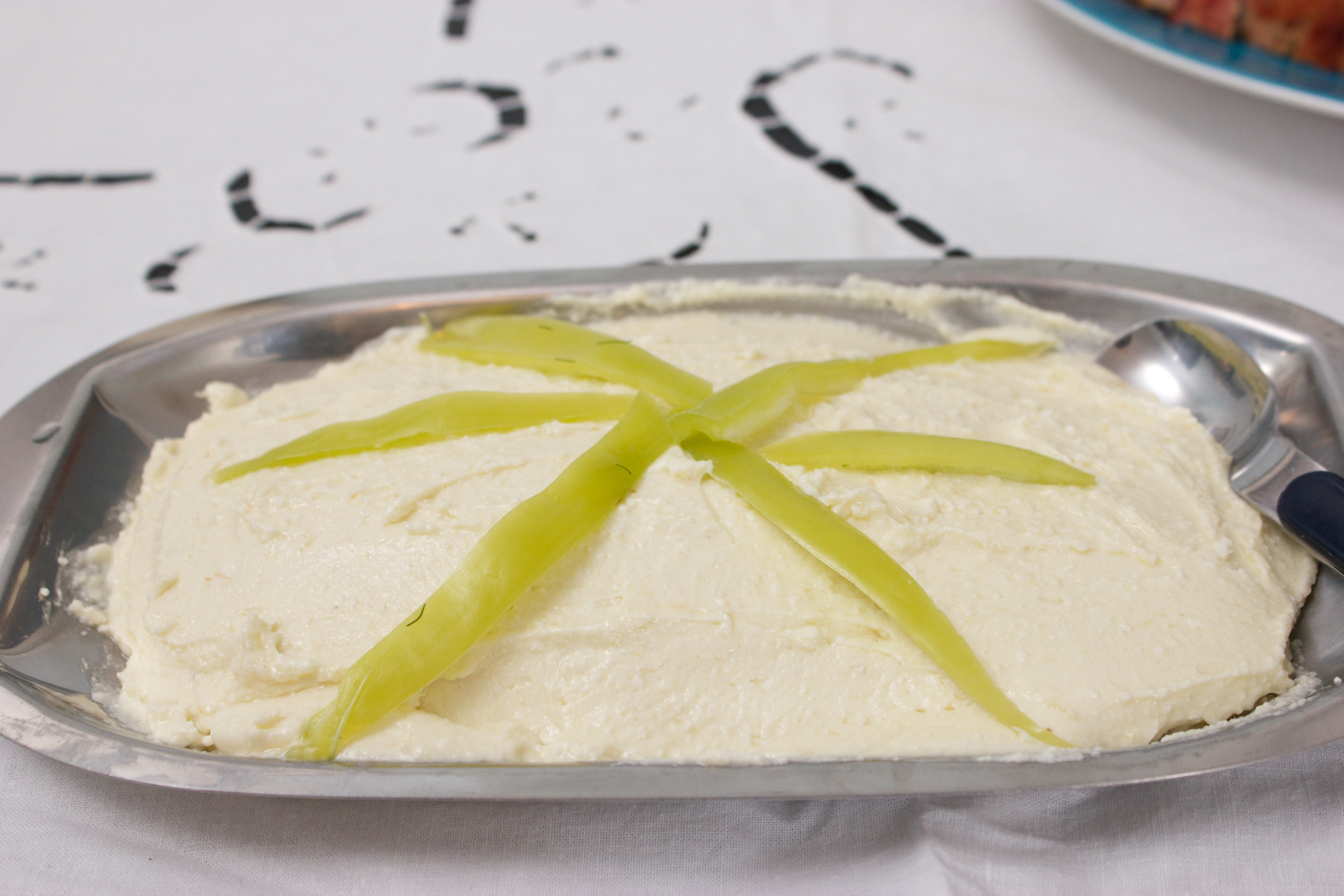 Tirokafteri (Greek: τυροκαφτερή); (Teer-oh-kaaf-tehr-ee); is a cheese spread from Greece and surrounding Balkan countries. The preparation of the dish may vary from region to region, but ingredients most commonly include feta cheese (sometimes combined with one or more other types of soft, white cheeses), hot peppers (such as red cherry pepper), roasted peppers, olive oil, lemon juice, garlic, yoghurt, or oregano.